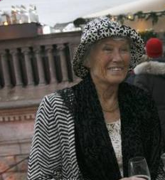 The Swedish author Britt Tunander.